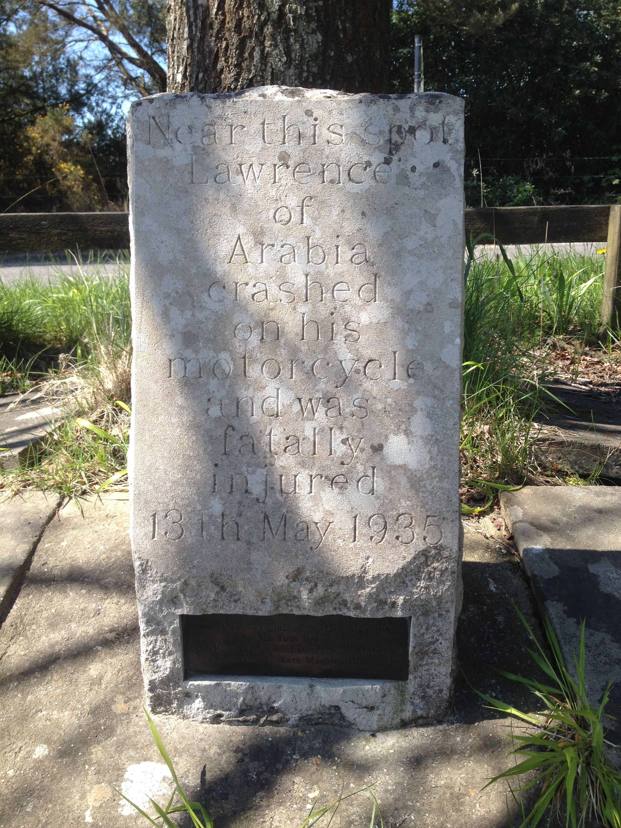 Memorial to Lawrence of Arabia. The memorial is at the tank viewing area which is a couple of hundred yards south of his cottage at Clouds Hill, along King George V Rd